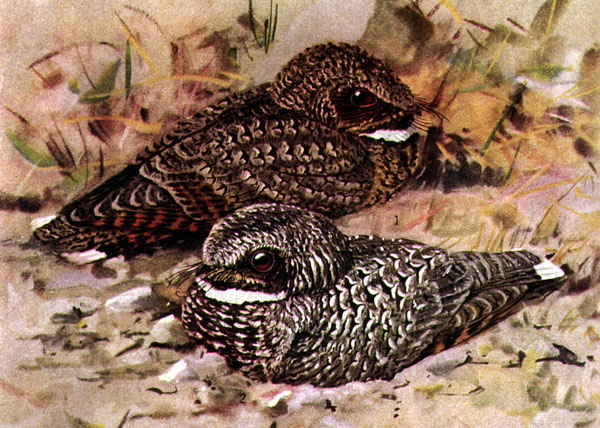 Common Poorwill, Phalaenoptilus nuttallii, offset reproduction of watercolor. Nominate race in foreground, Dusky Poorwill, Phalaenoptilus nuttalli californicus, in background.